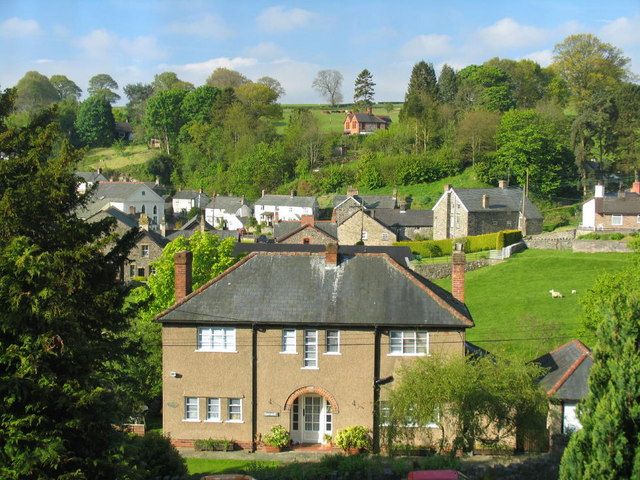 Village of Llanrhaeadr ym Mochnant. Quiet, traditional village nestling in a small valley.